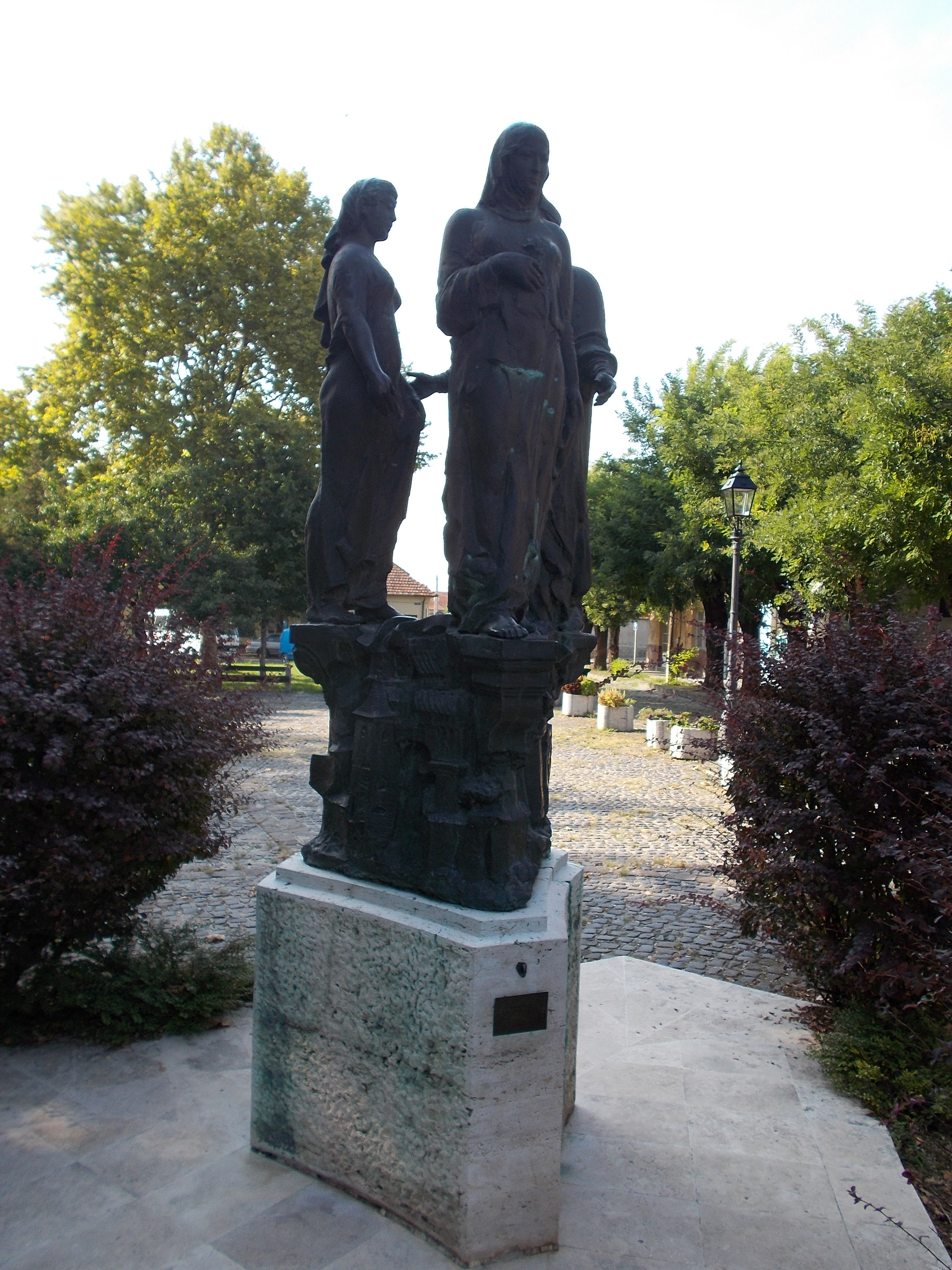 Statue of City Founders. Györgyi Lantos work in 1989. Bronze, Limestone- Eötvös Sq., Cegléd, Pest County, Hungary